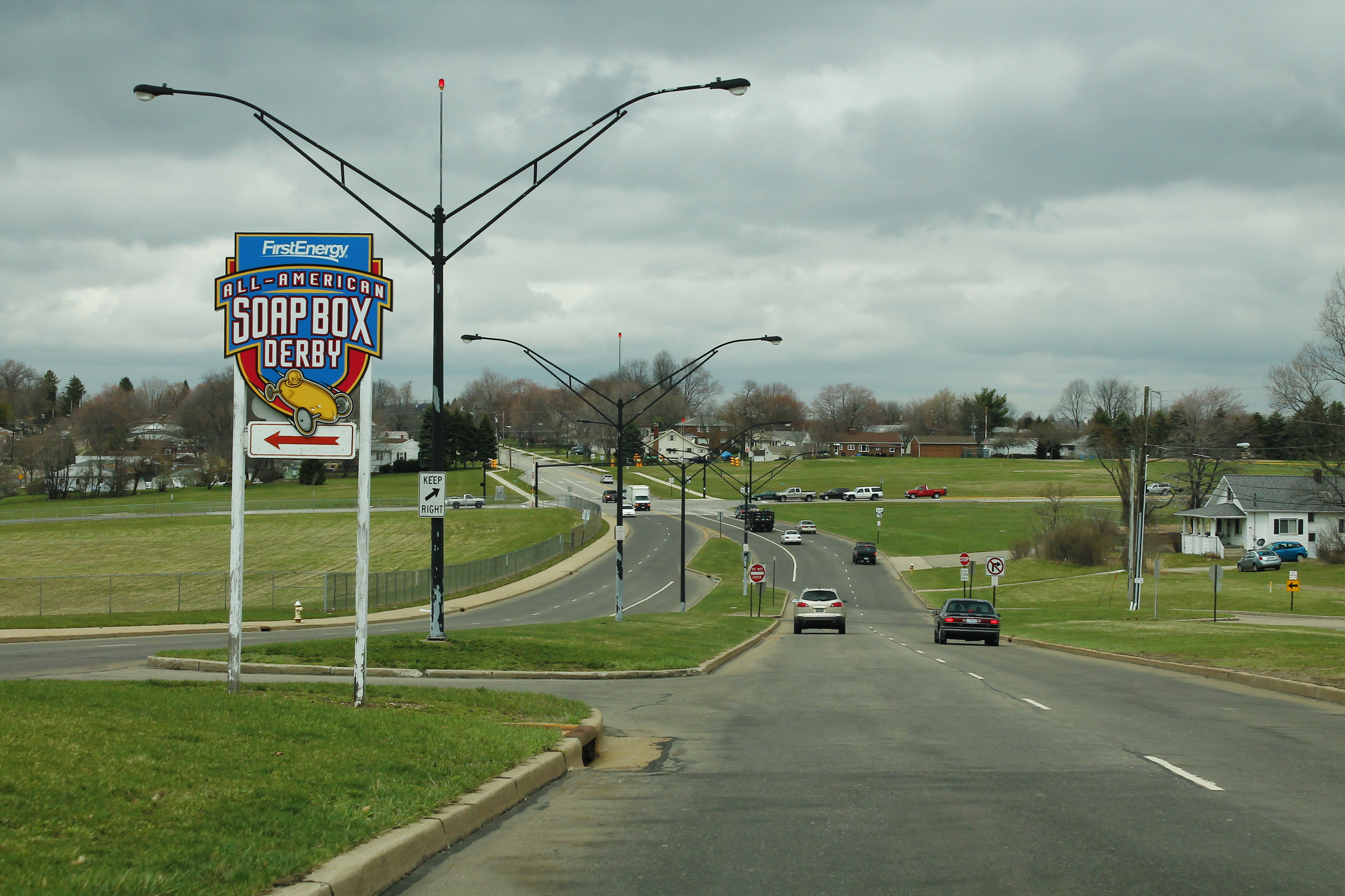 OH241Road-SoapBoxDerbySign